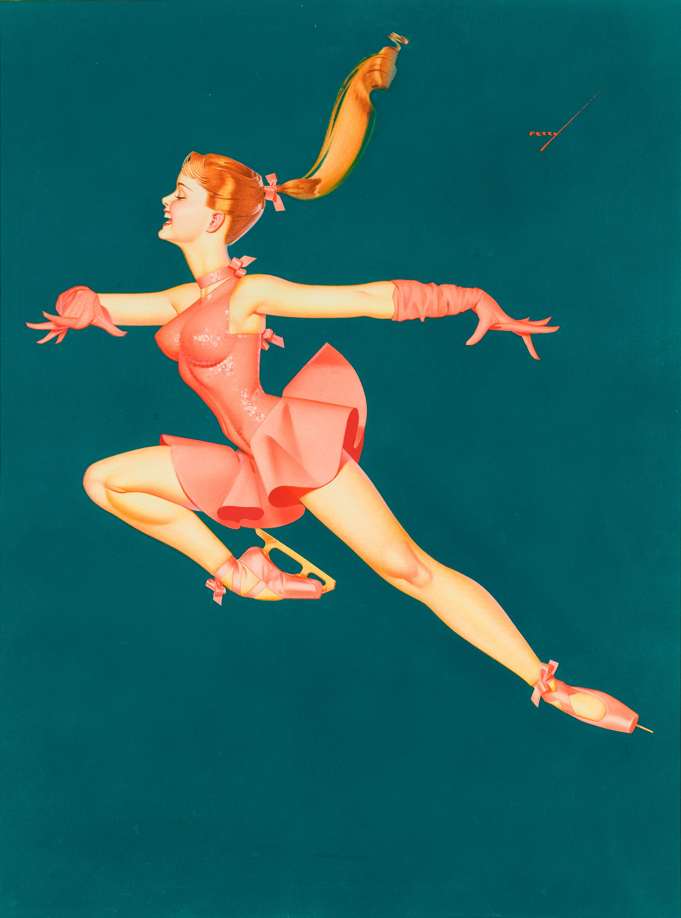 The Ballerina was a painting for the 1965 Ice Capades. Petty's work for Ice Capades, appearing as program covers and posters, began in 1942 and continued throughout the decade. After a hiatus during the 1950s, due to creative differences, Petty's Ice Capade girls did not appear again until the early 1960s. This piece was reproduced on page 173 of The Classic Pin-up Art of George Petty by Reid Stewart Austin, Gramercy Books, 1998, and also as figure 584 of The Great American Pin-Up by Charles G. Martignette and Louis K. Meisel, Taschen, 1996.